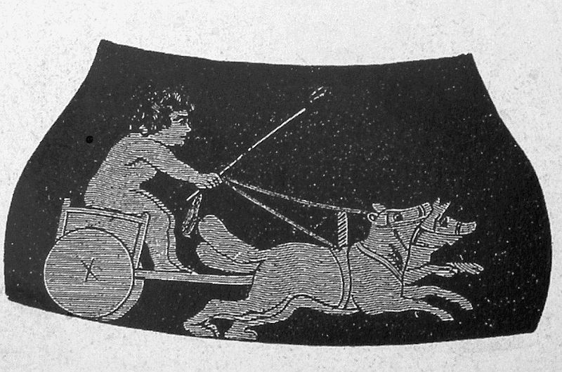 ALte Abbildung eines Zughundes auf einer griechischen Vase